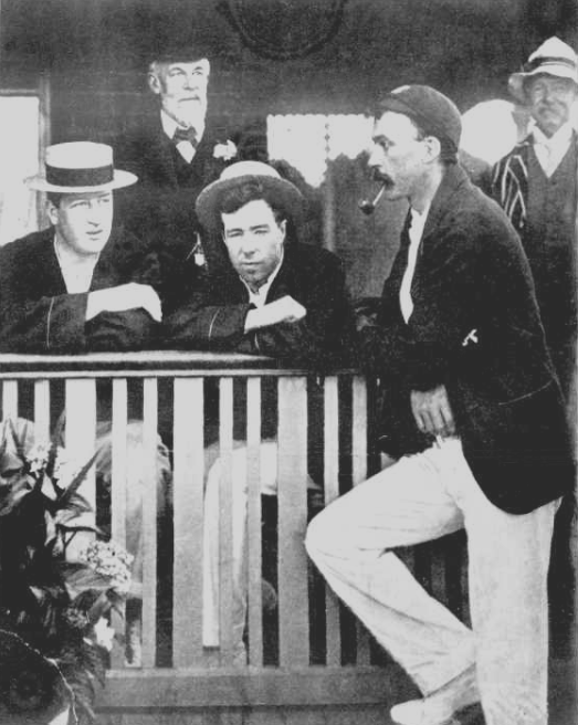 L to R: James Horan, E. V. Carroll, A. Christian